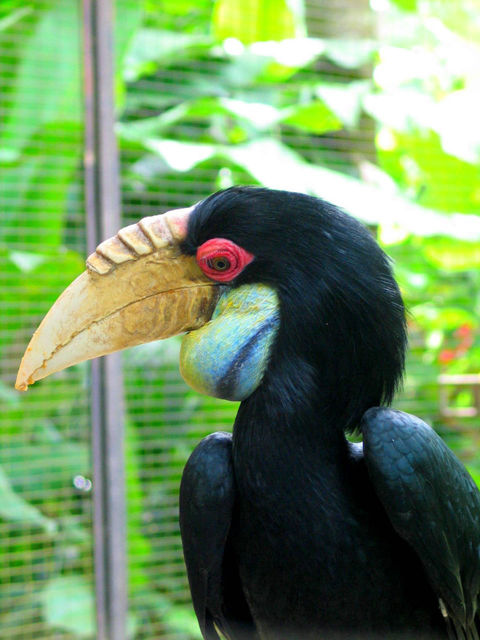 Wreathed Hornbill (Aceros undulatus) at Bali Bird Park. Upper body shown.Birds